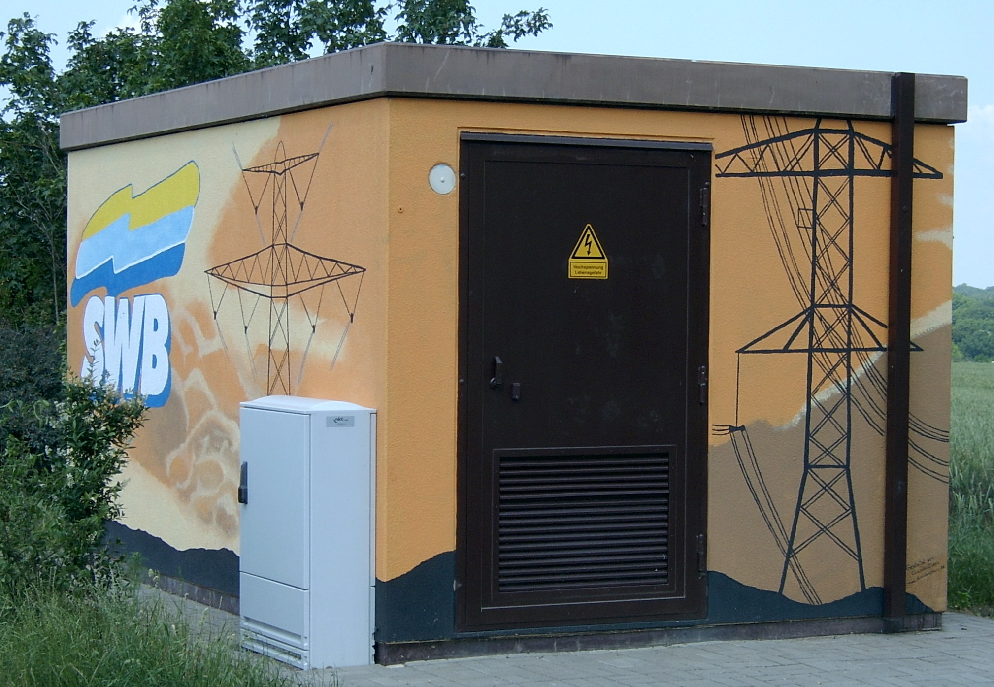 A distribution substation in Bernburg, Germany